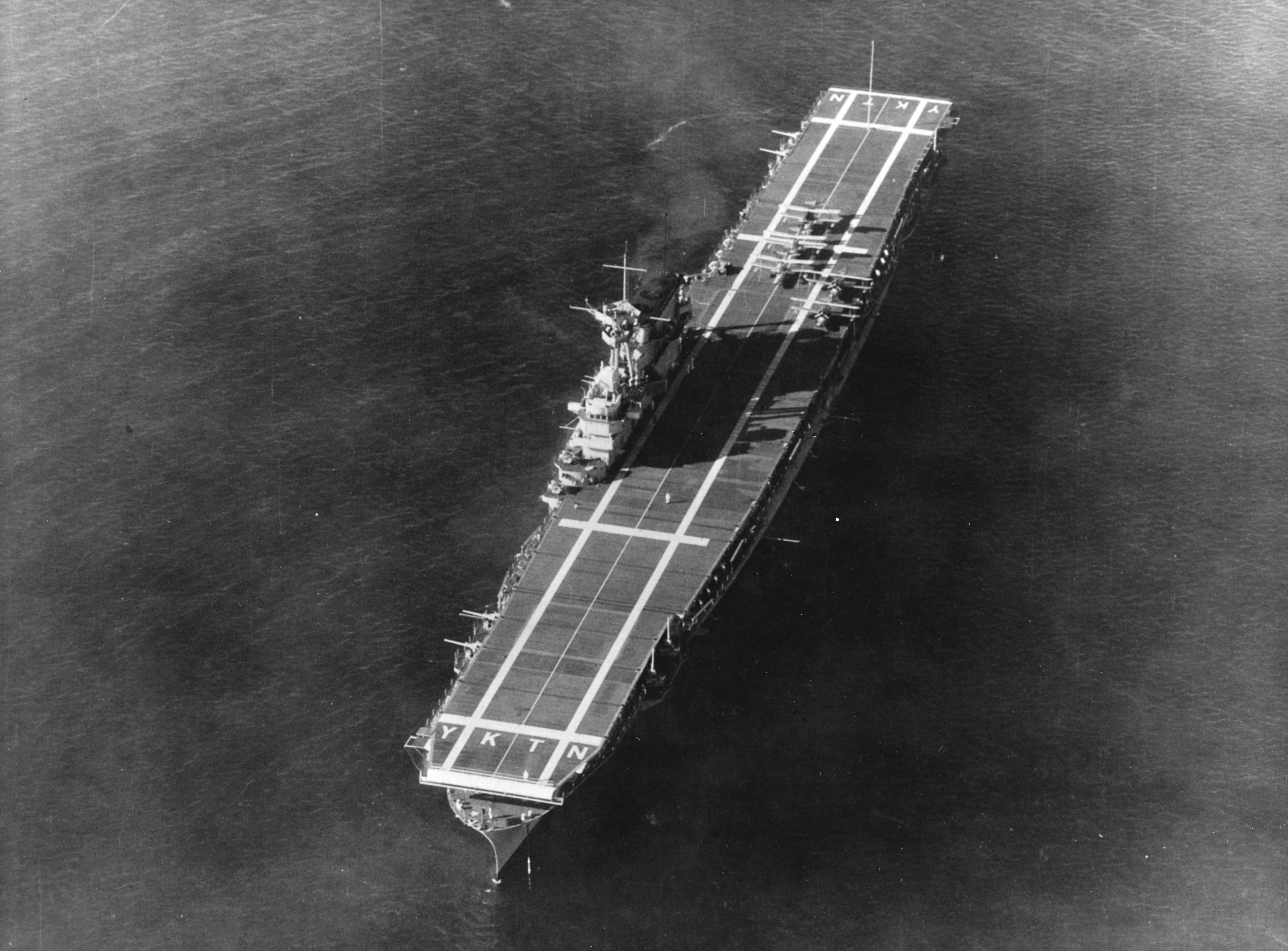 The U.S. Navy aircraft carrier USS Yorktown (CV-5) anchored in the Caribbean Sea area, 17 January 1938, during her shakedown cruise.